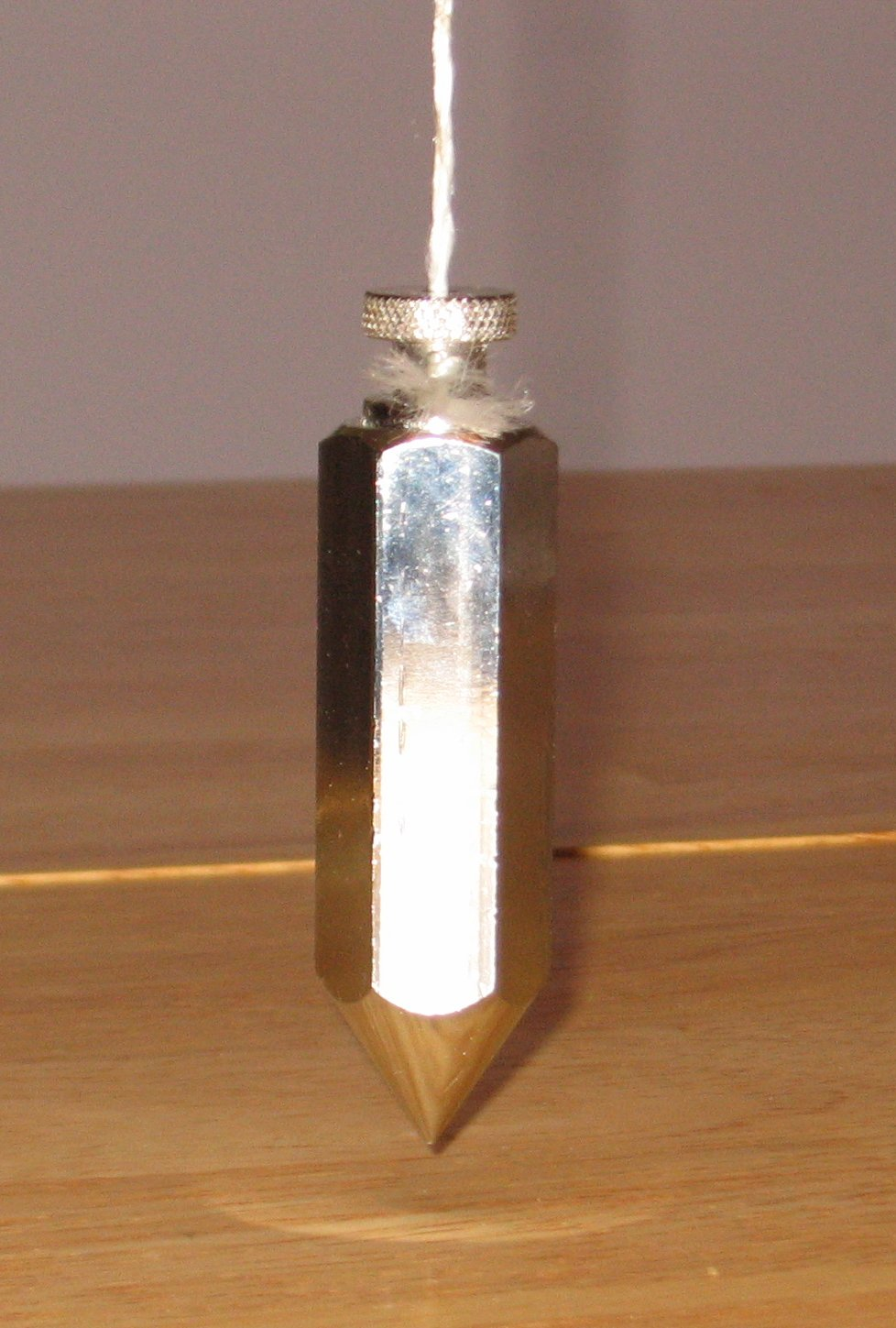 Plumb bob suspended on a string, photo cropped with the Gimp.